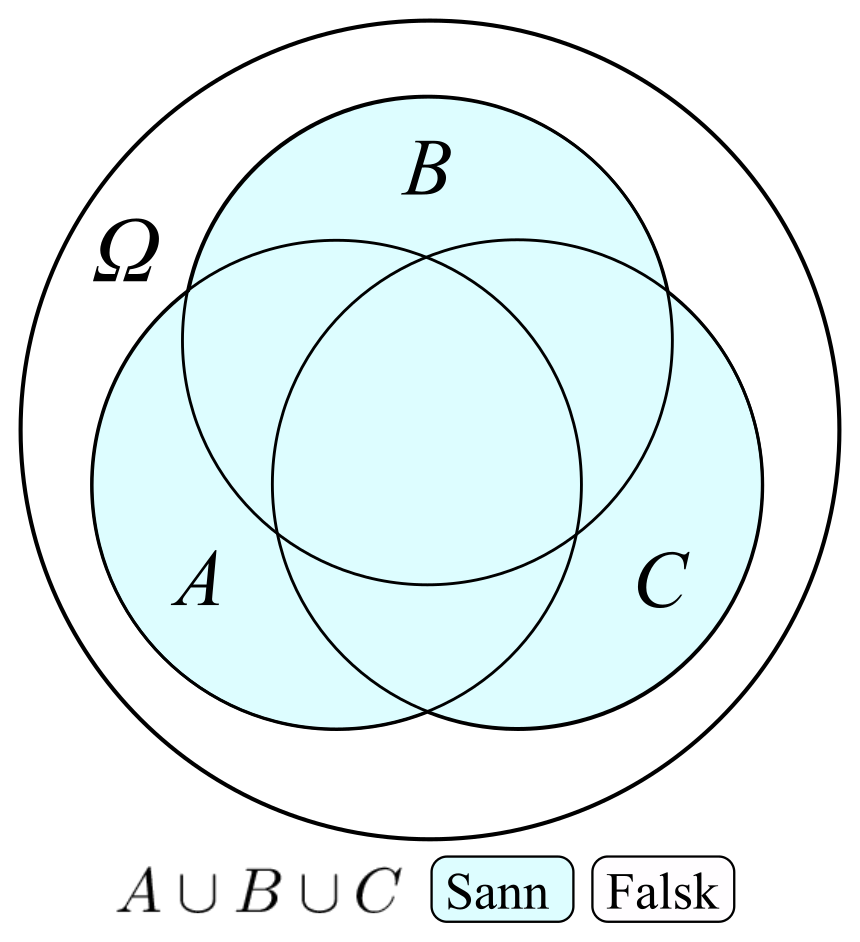 union of 3 sets